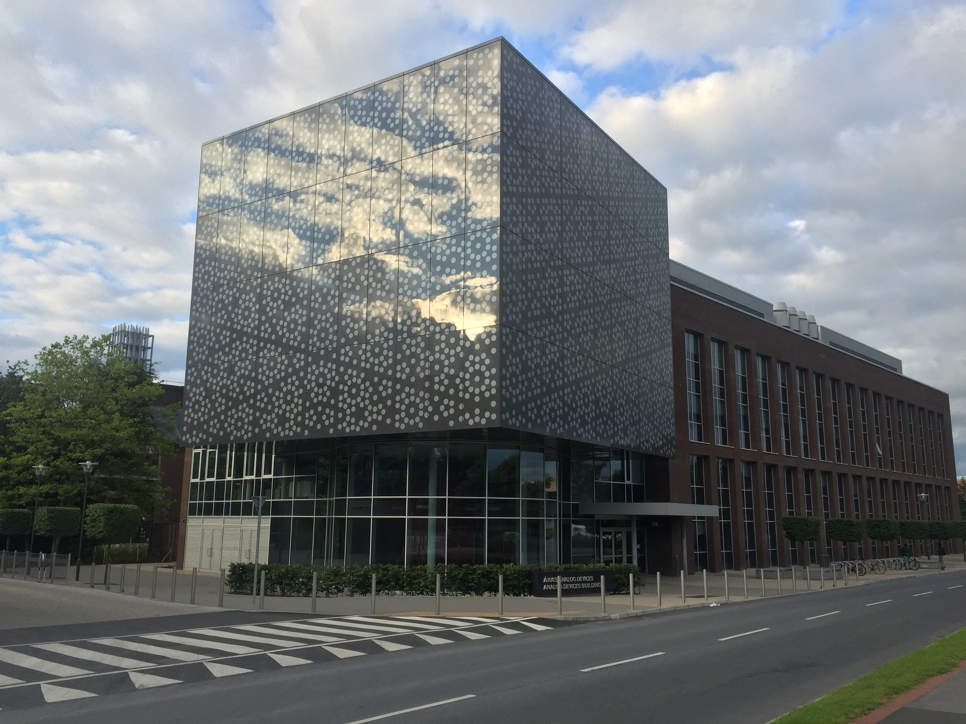 The Analog Devices Building at the University of Limerick, Ireland